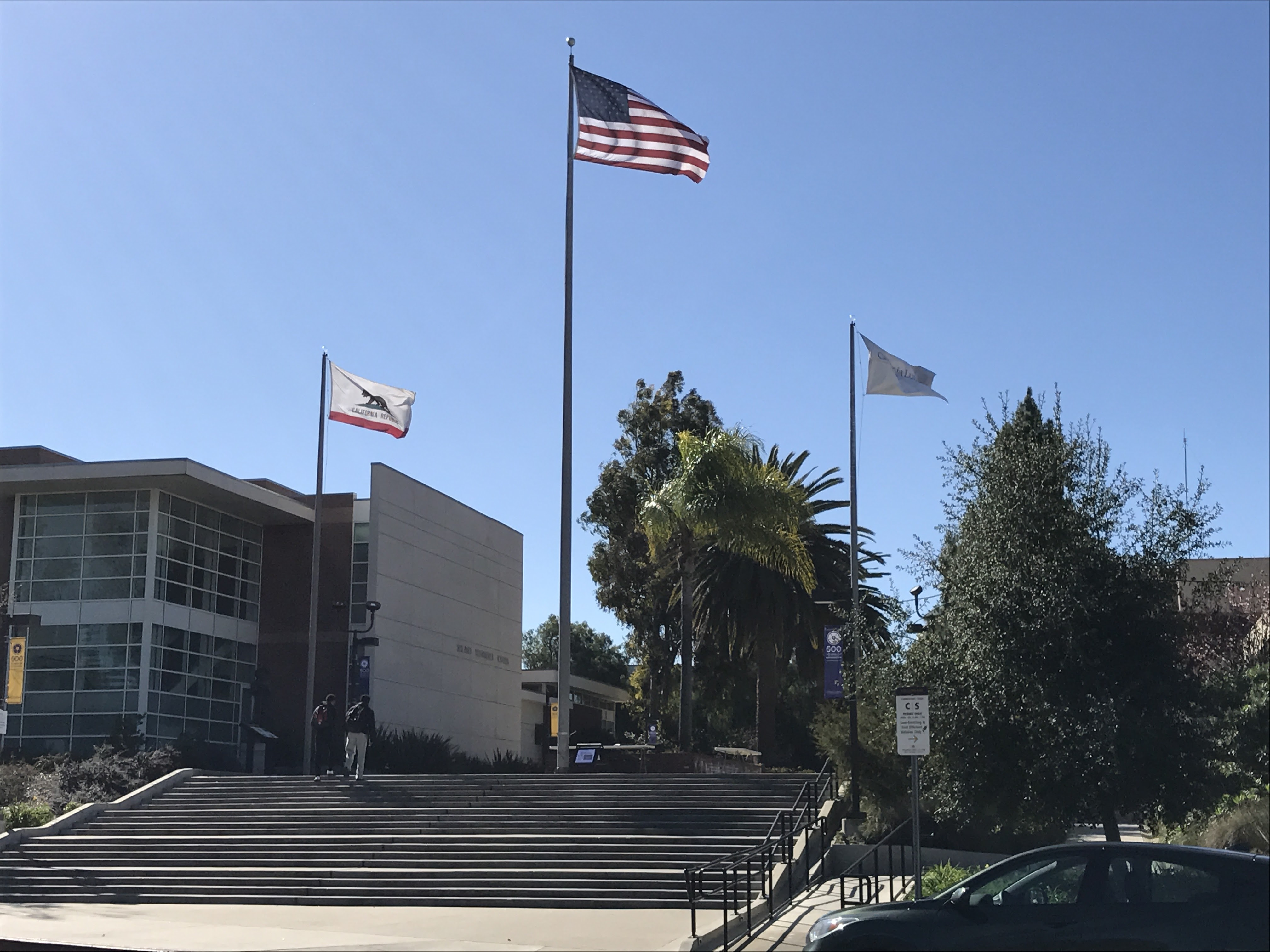 CLU Main Street